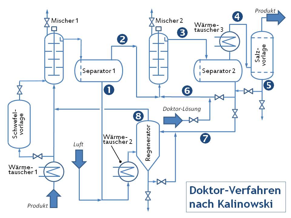 Doctor Sweetening Process: Process flow scheme upon Kalinowski